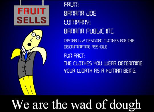 Screen shot from the flash cartoon Irrational Exuberance.